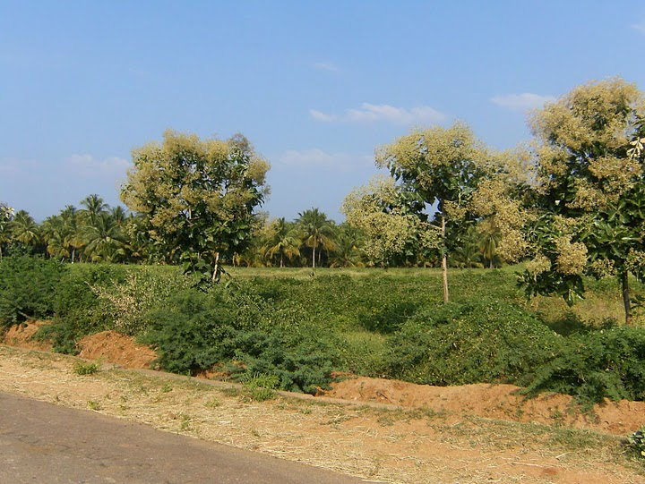 Manakadu